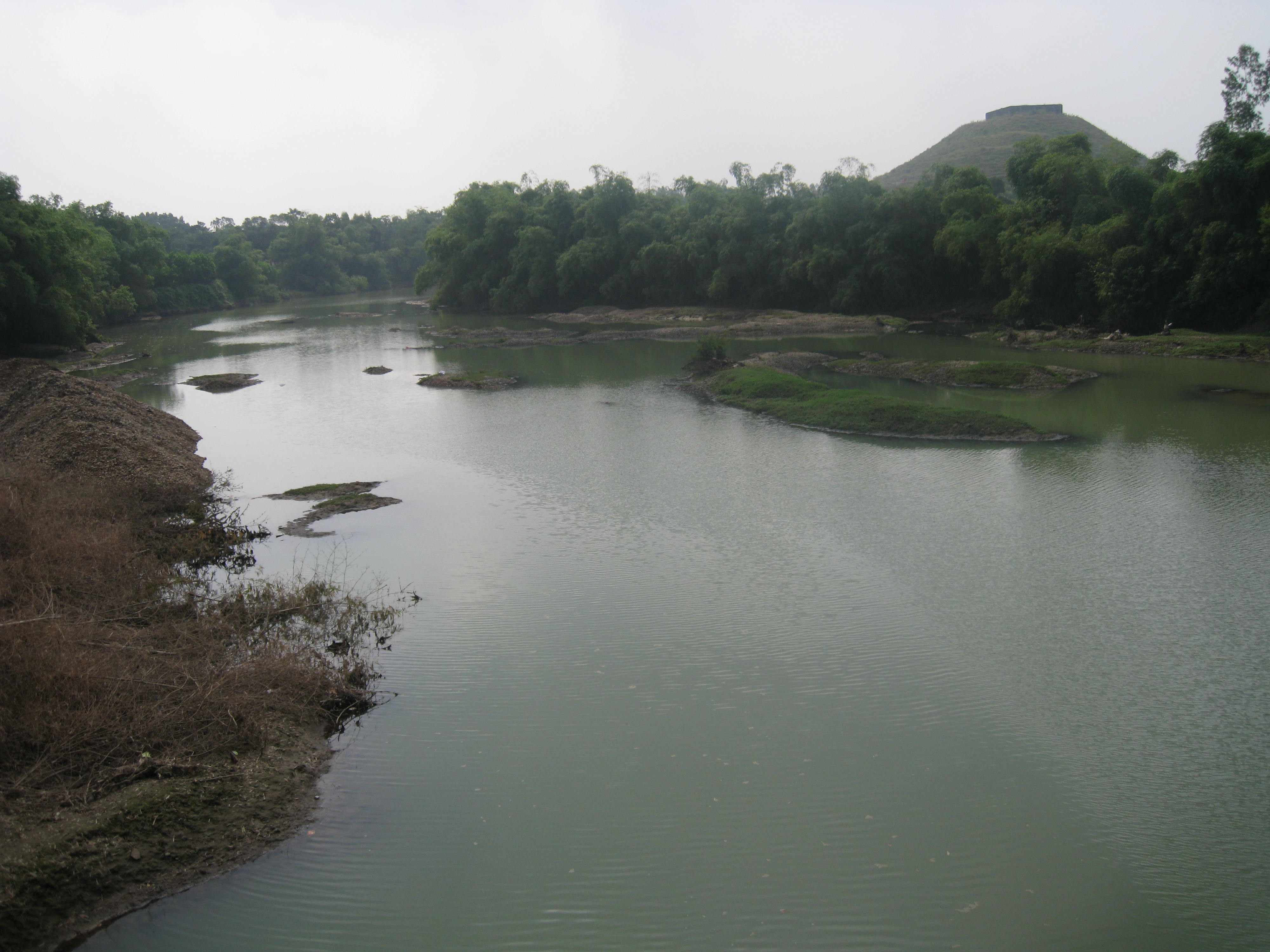 Công River in Sông Công City, Thai Nguyen Province.